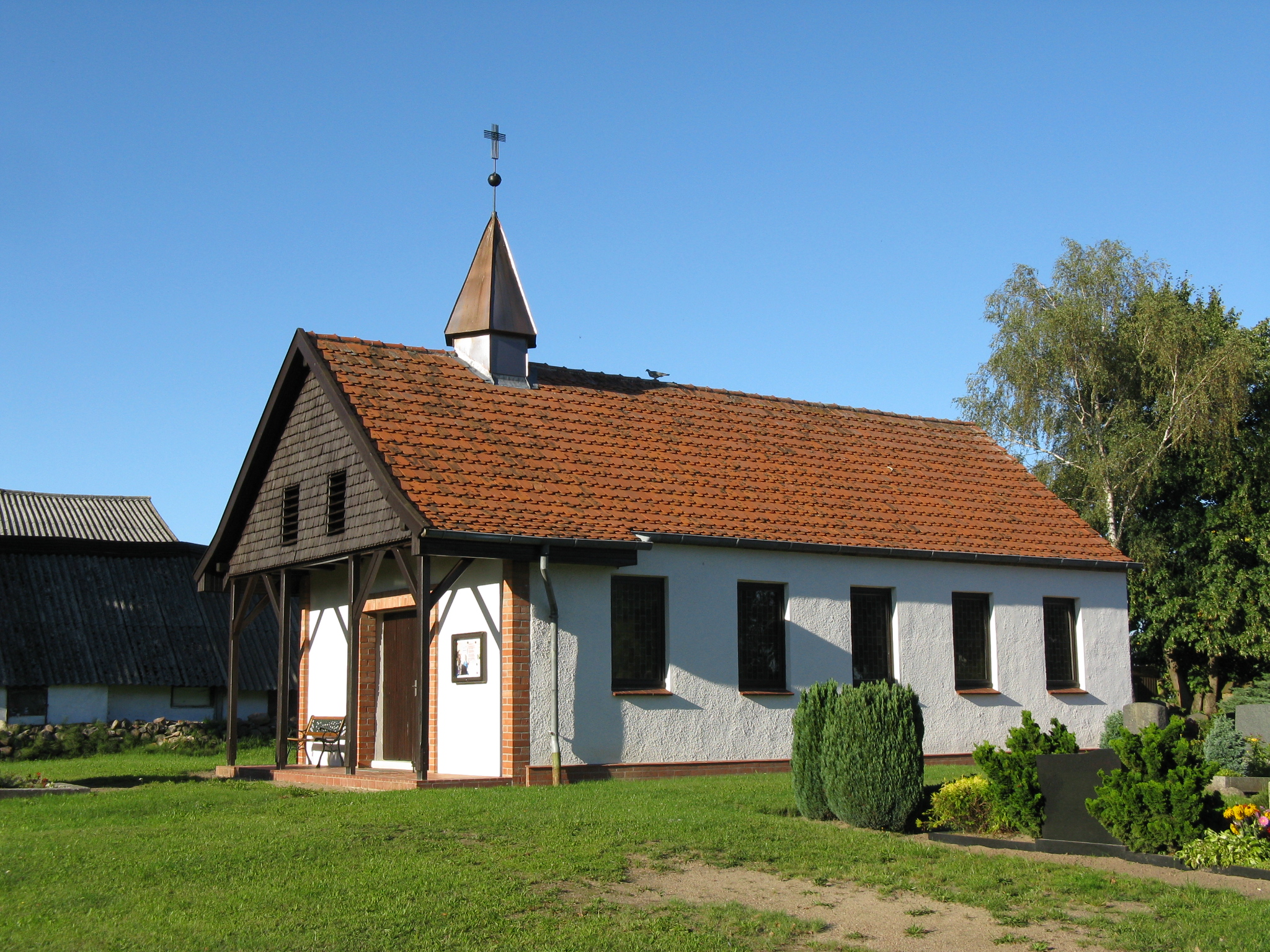 Chapel in Valluhn, district Ludwigslust, Mecklenburg-Vorpommern, Germany